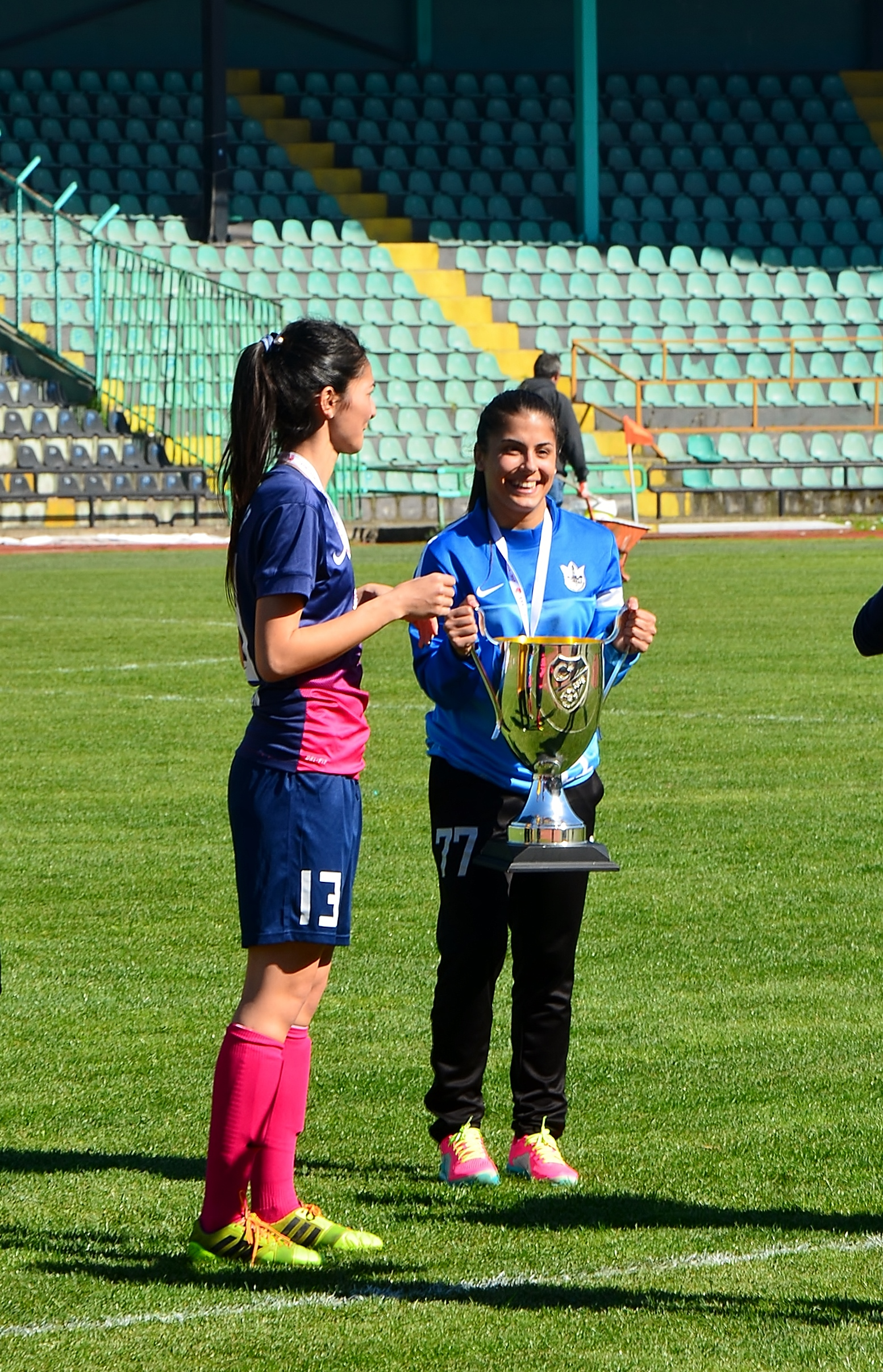 Sibel Duman (left) and Sevgi Çınar with champion trophy of the 2014-15 season after the play-off match Konak BS vs Ataşehir BS